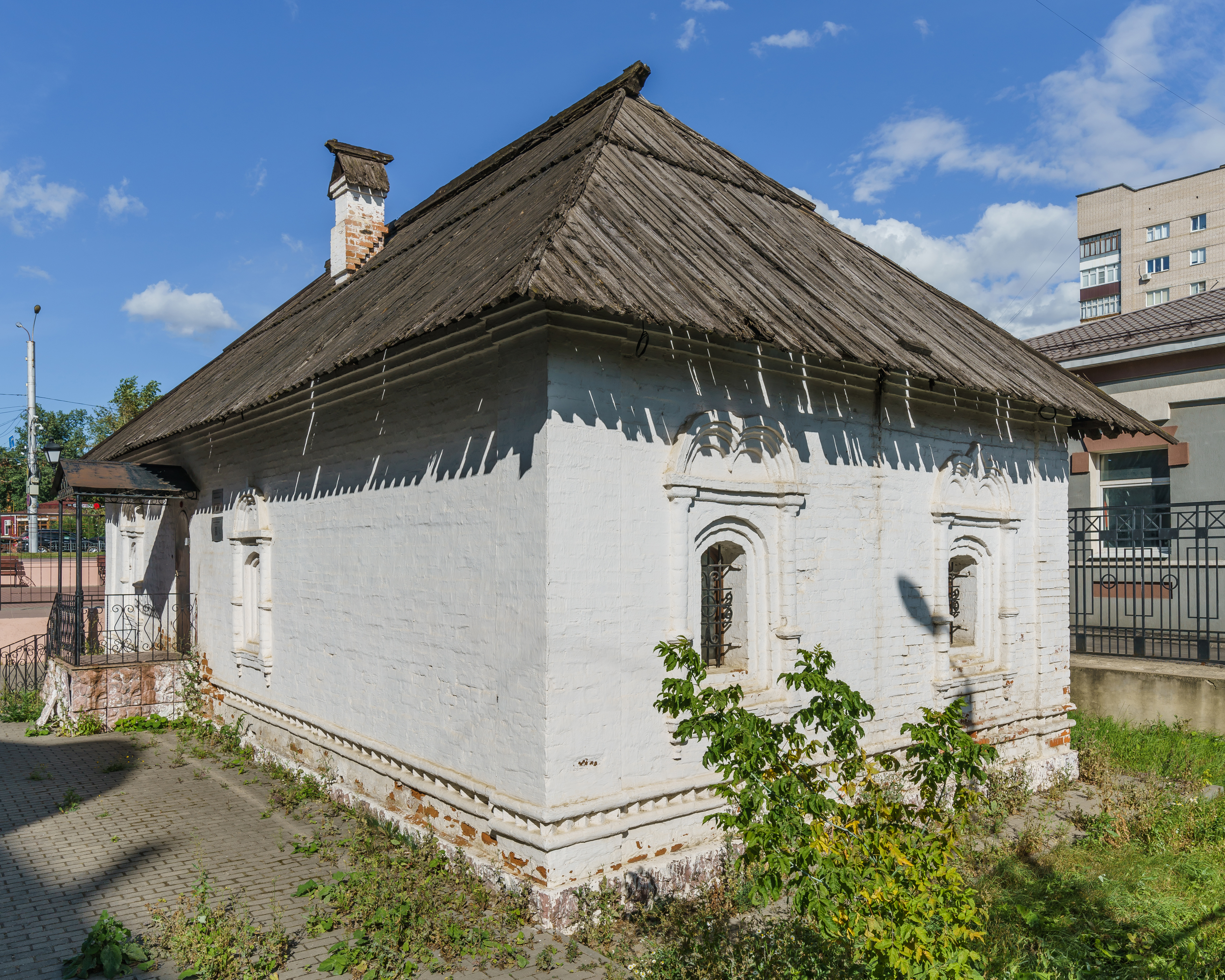 Schudrov Palace (the city's oldest profane building) in Ivanovo, Russia